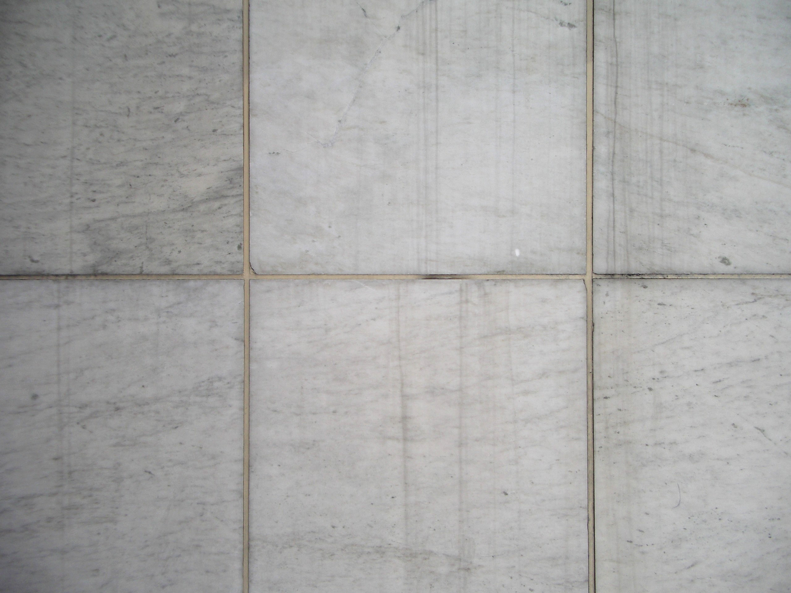 Ekeberg marble (Ekebergsmarmor). Swedish dolomite marble used for buildings, sculptures, ornaments and as an industrial raw material. Pictured at the Folksam building, Stockholm in weak winter afternoon light.